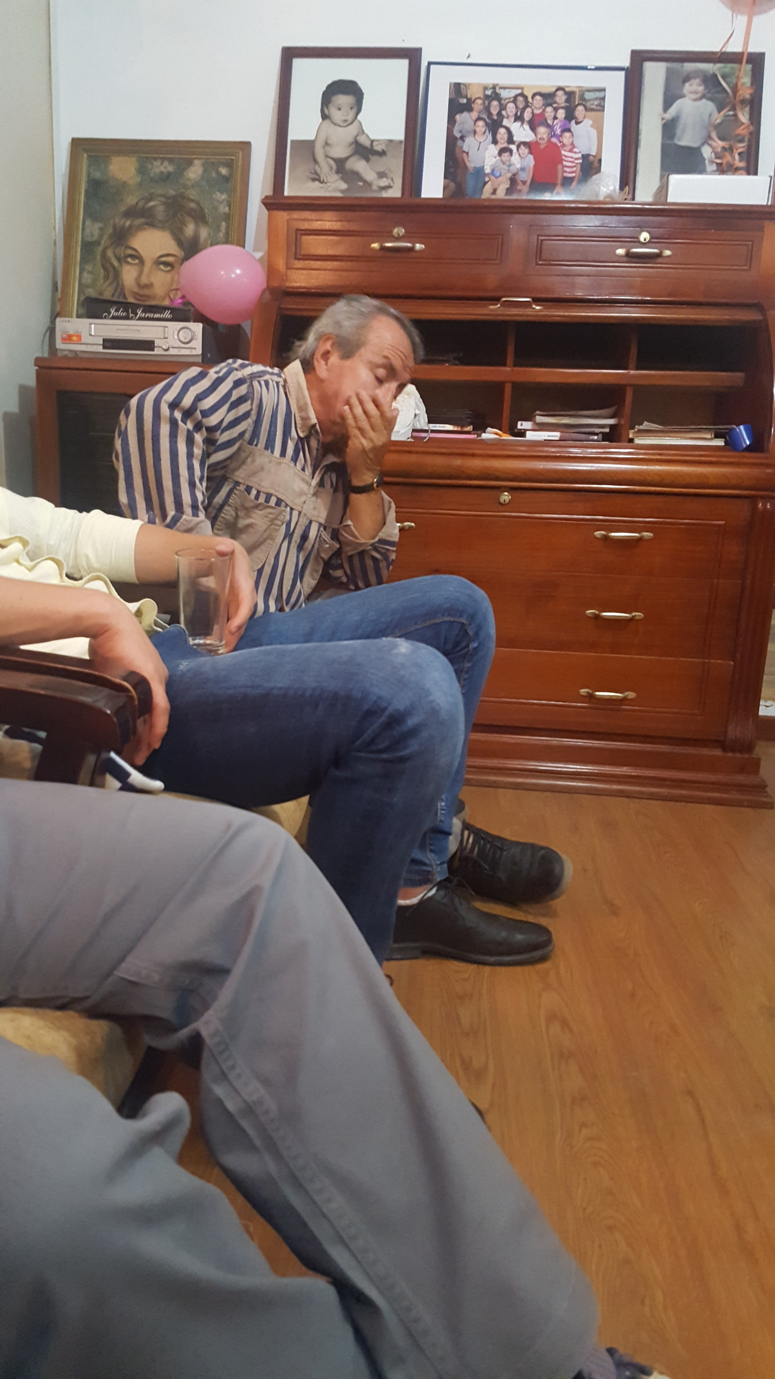 Gestures used for expressing ambiguity, an element of high context cultures.